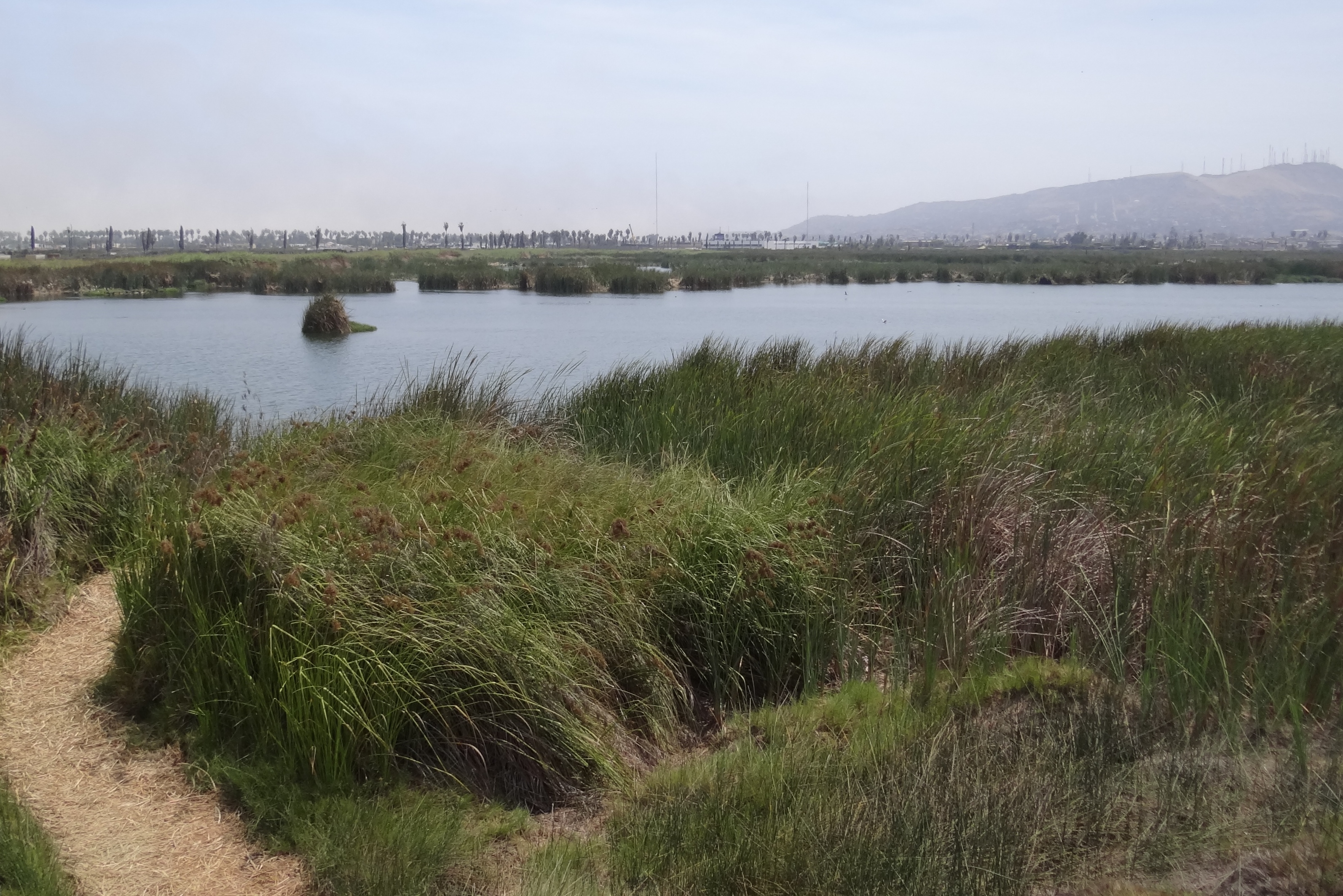 Photograph, taken from a refuge observation tower, of Laguna Principal and surrounding wetlands of the Pantanos de Villa wilelife refuge, Lima, Peru. The hill "Morro Solar" is visible in the upper right.